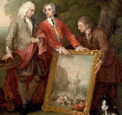 Detail of :Image:William Hogarth - Portrait of Sir Andrew Fountaine with other people.jpg